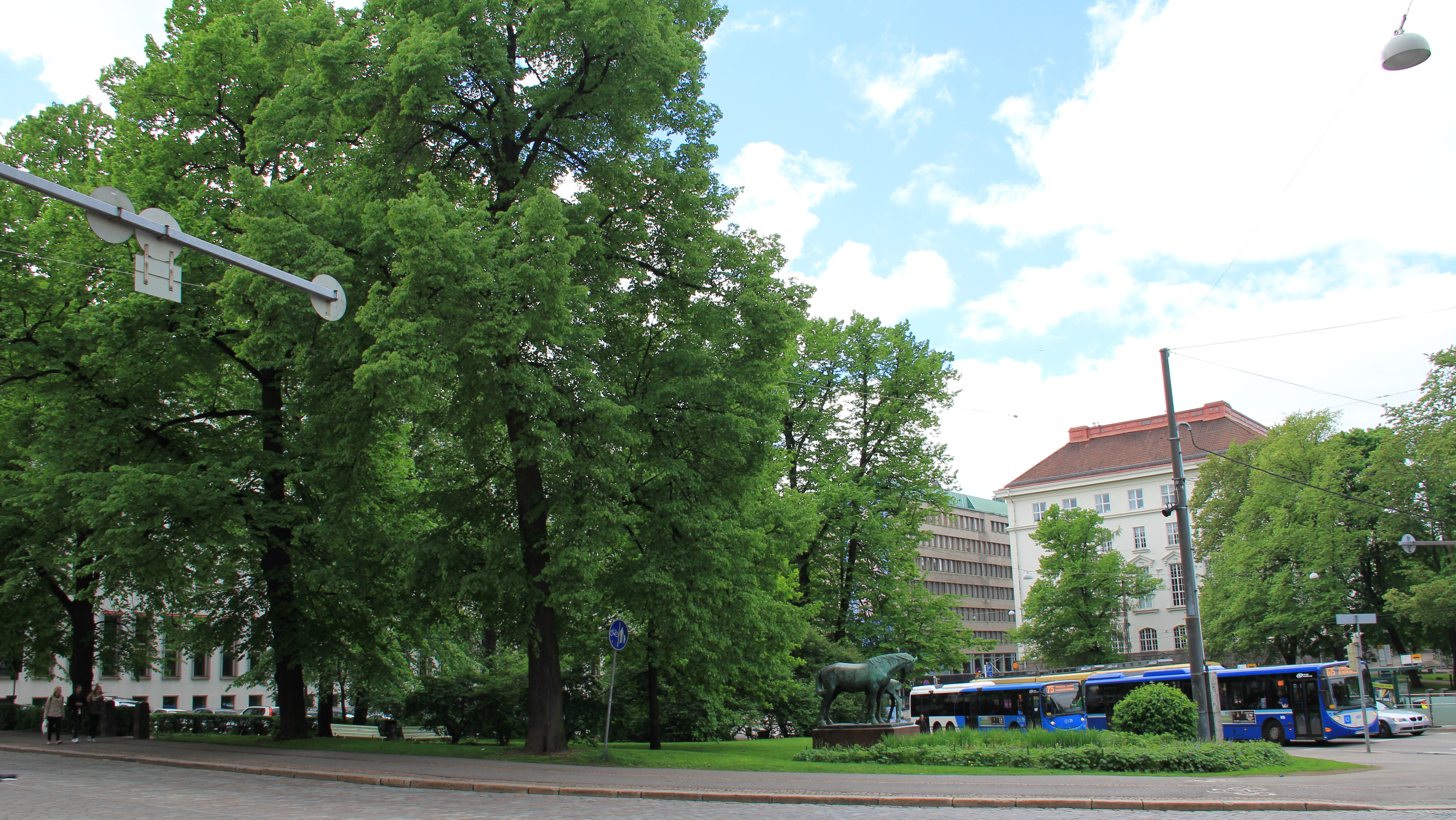 Varsapuistikko, a park in Kluuvi, Helsinki, Finland. Photo taken form the other side of Unioninkatu, corner of Liisankatu and Unioninkatu. The statue in the park is Äidinrakkaus (Maternal love) by Emil Cedercreutz (1928).